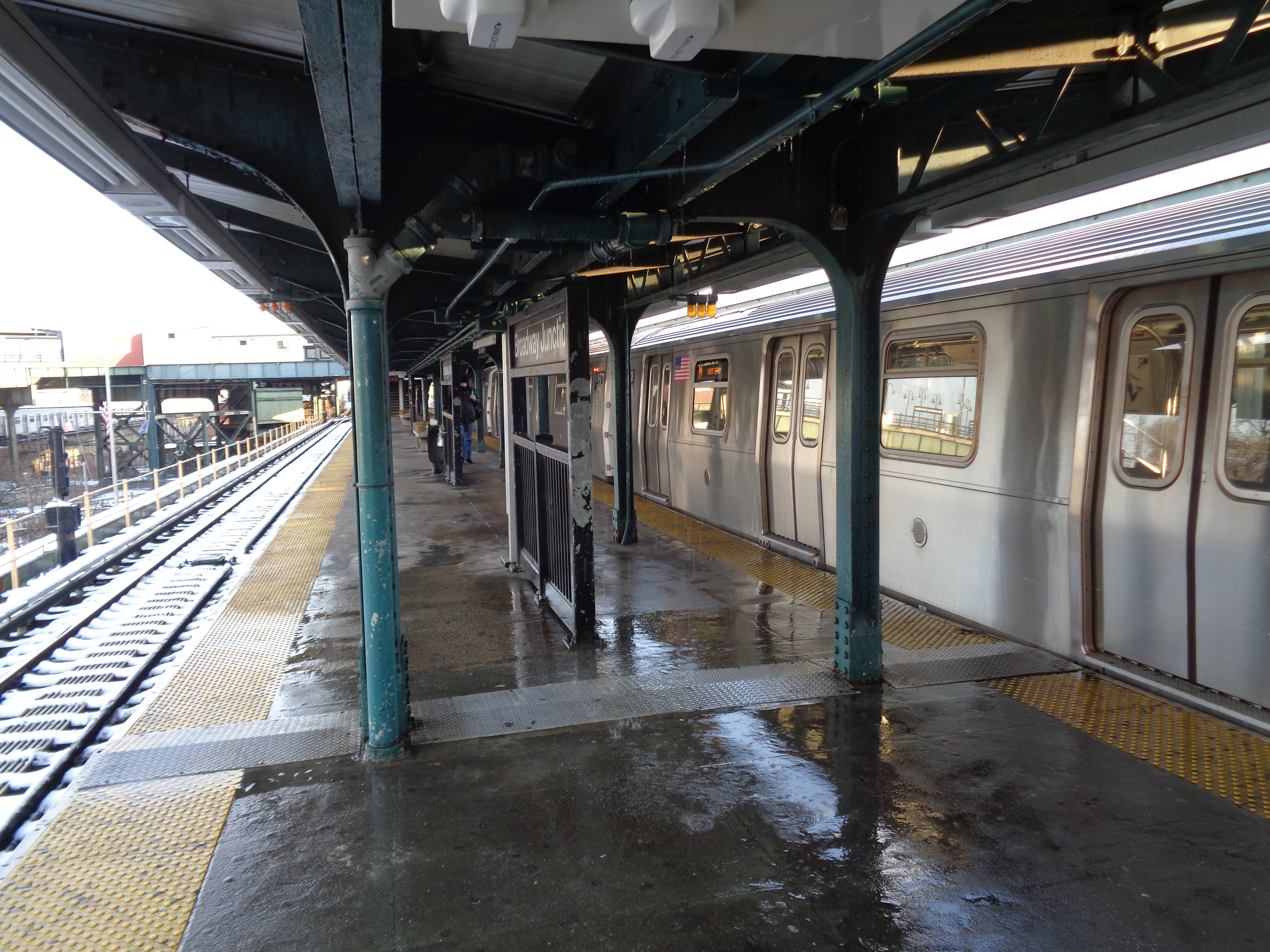 Water dripping down onto the Manhattan-bound platform of the Broadway Junction BMT Jamaica station in East New York, Brooklyn. The water is melting snow on top of the platform shelter.